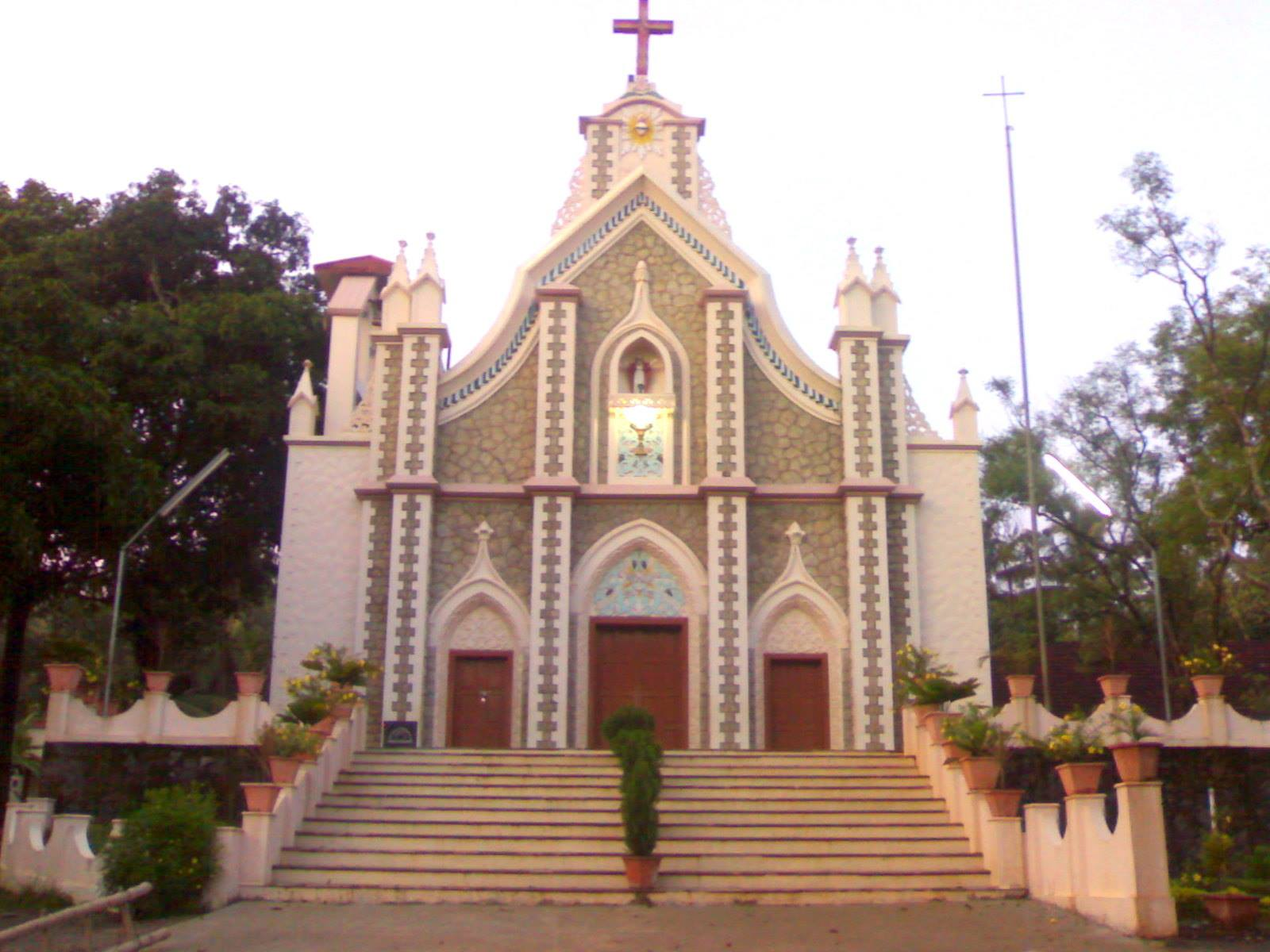 This the Sacred Heart Church Pacode Parish pictures